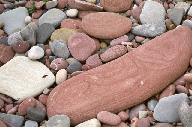 Eday - Old Red Sandstone Sea washed pebbles on the shore at the Bay of Doomy. Mostly Old Red Sandstone, and so finely textured and smoothed by wave action that they made ideal stones for decoration by drawing and painting